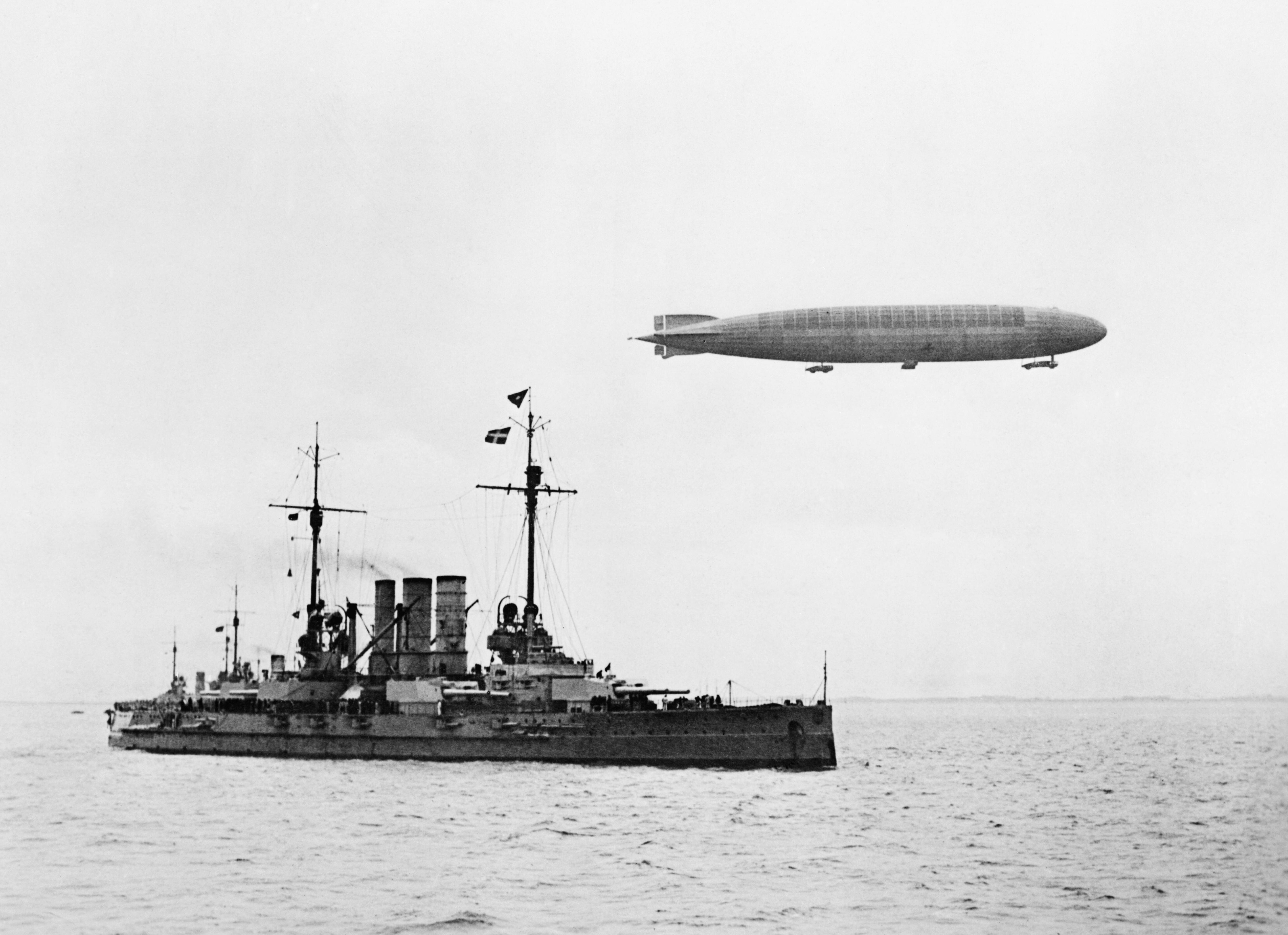 The german zeppelin L31 flying over the battleship SMS Ostfriesland in 1915.